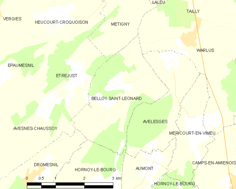 Map of French municipality Belloy-Saint-Léonard